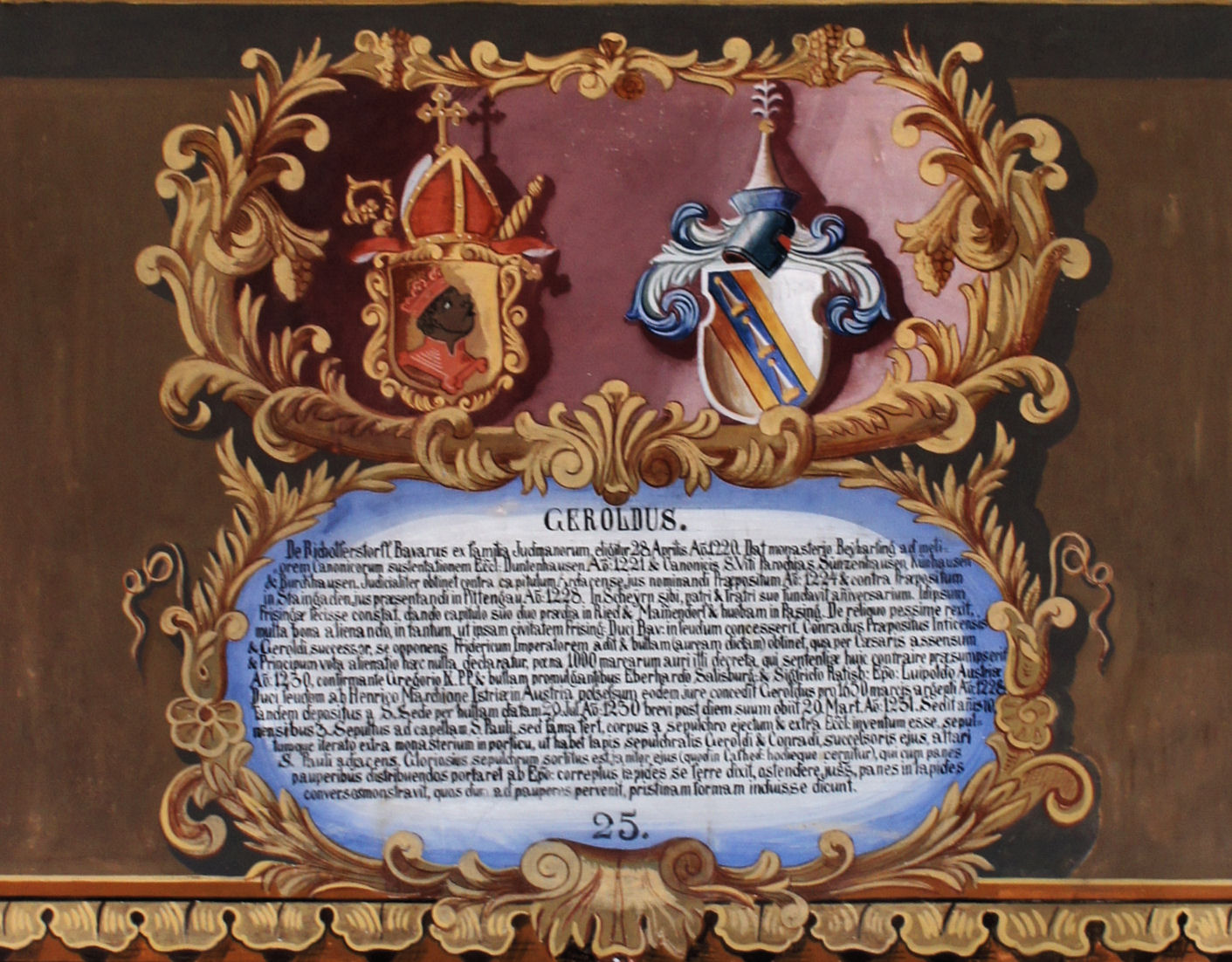 Wappentafel von Gerold von Waldeck, Bischof von Freising, im Fürstengang zwischen Fürstbischöflicher Residenz und Freisinger Dom. Links das geistliche, rechts das persönliche Wappen, darunter ein lateinischer Text mit kurzer Biographie.